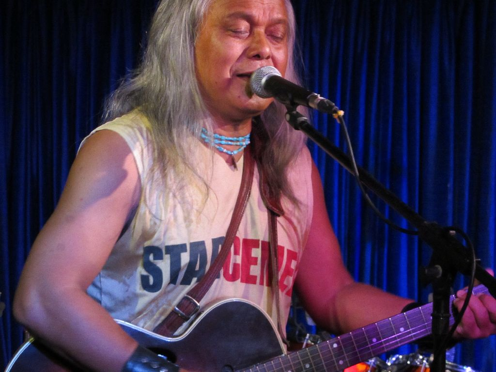 Lou Majaw live at B Flat Bar, Bangalore, India